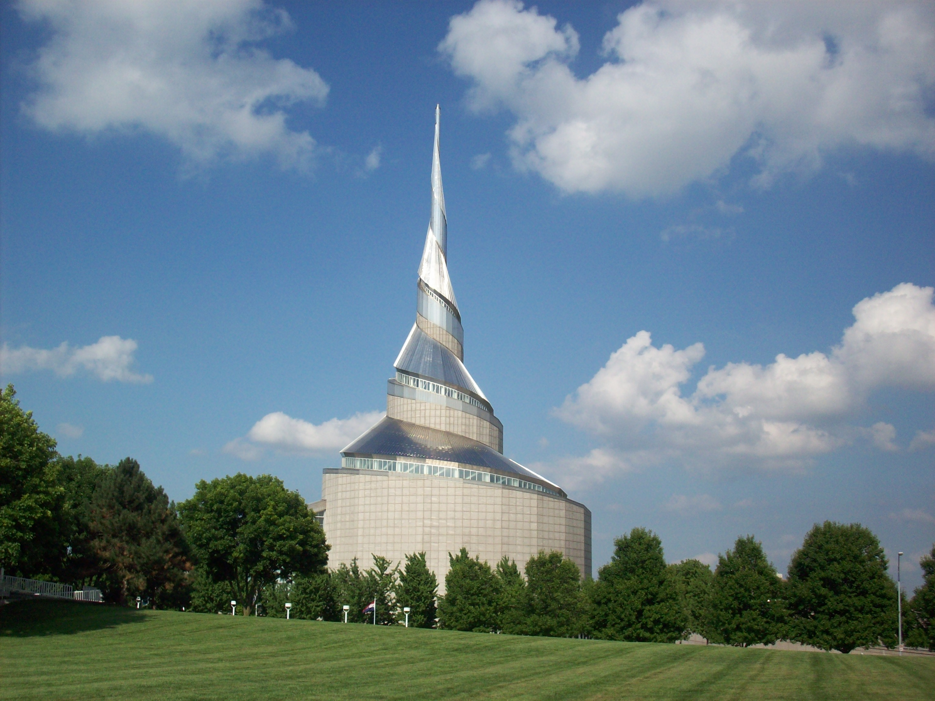 Community of Christ Temple in Independence, Missouri; Temple Lot in foreground.